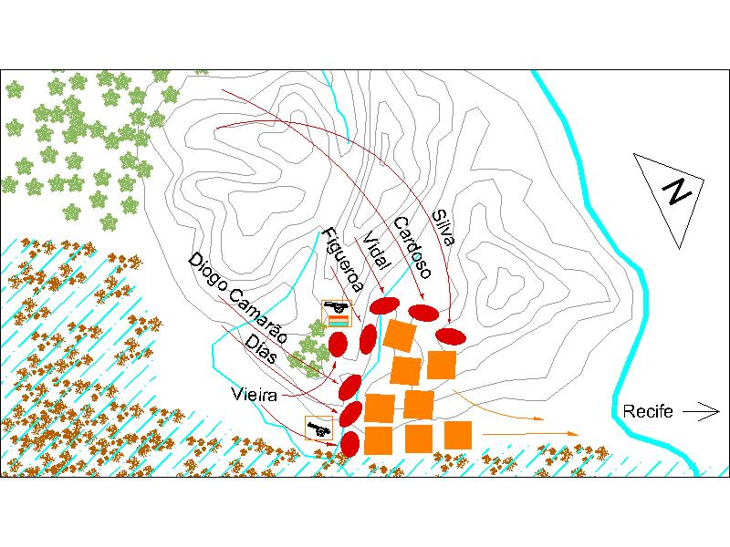 Desenvolvimento da batalha